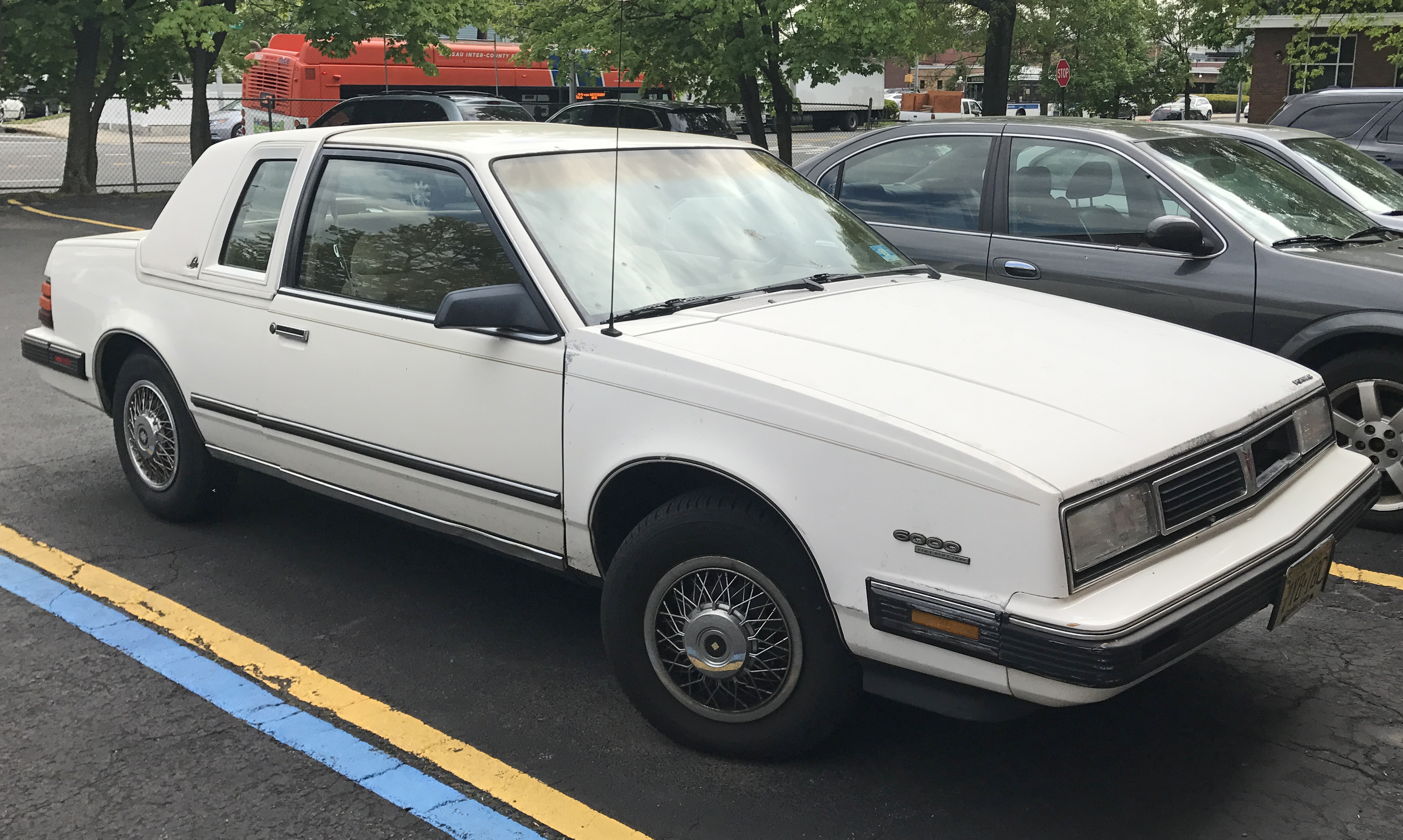 A 1987 Pontiac 6000 Coupé, base model fitted with the 2.8-liter V6 (LB6, fuel injected, 125hp, vin code W). The coupé was only available with the base equipment this year, which was also the last year for the two-door 6000. Exciting factoid: 1987 was the only year when the coupé bodywork was offered with these composite headlamps. Body number F27, although it is an AF1 according to the chassis number which is some sort of weird 1987/1988 hybrid.